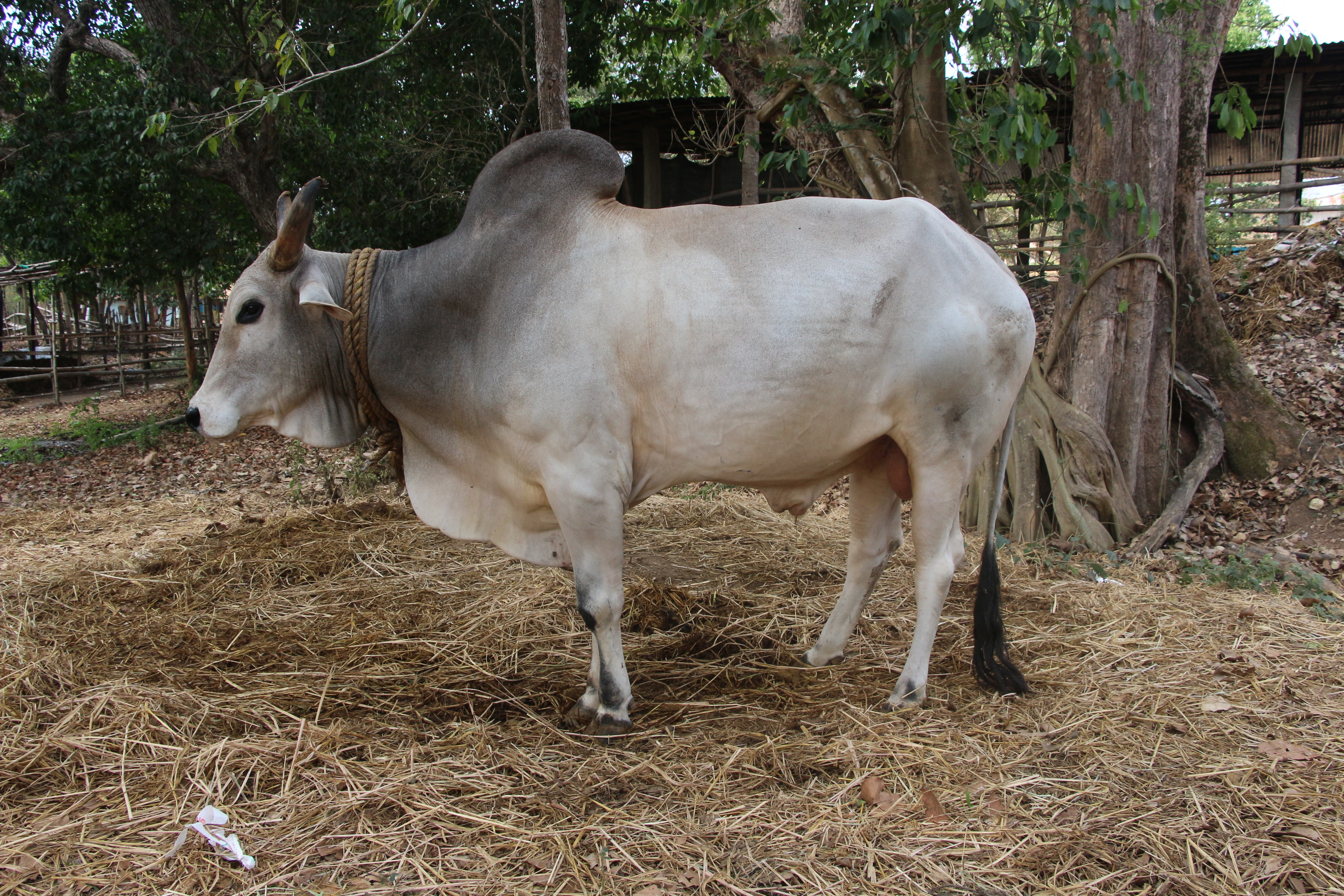 Indian cow breed Gangatiri ಕನ್ನಡ: ಭಾರತೀಯ ಗೋತಳಿ ಗಂಗಾತಿರಿ